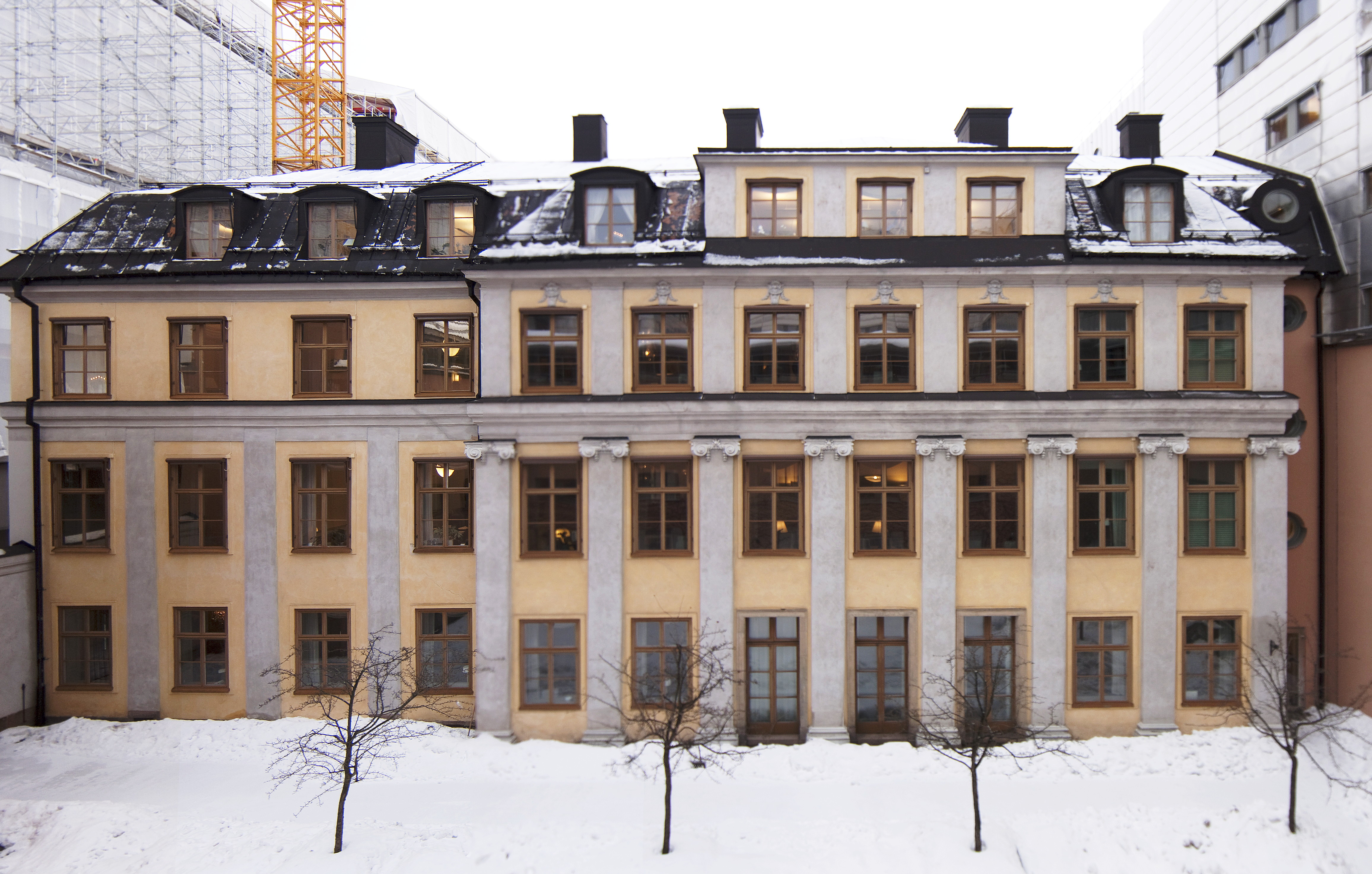 Adelkratz palace, Stockholm, Sweden: Eastern side.